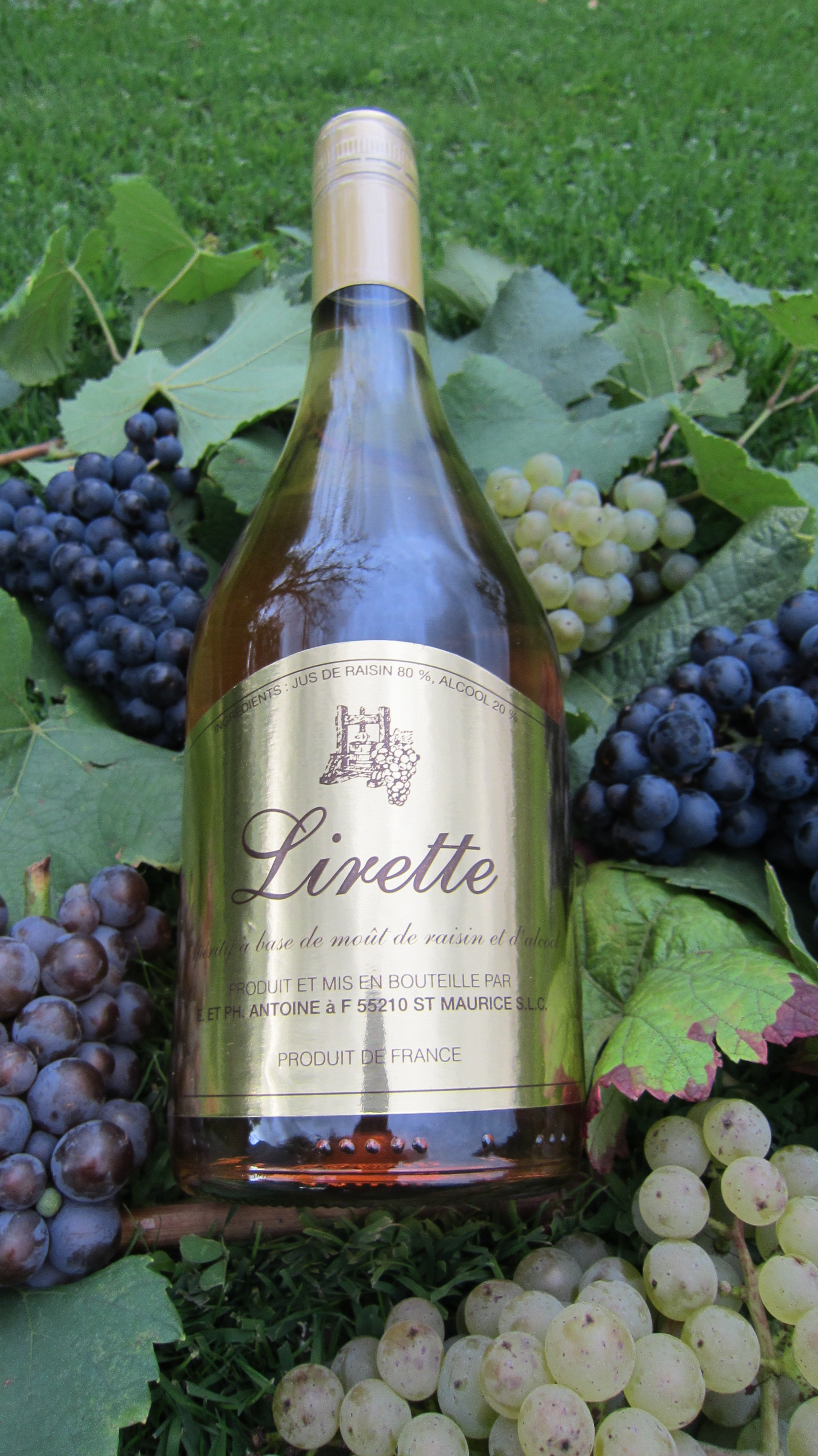 Lirette blanche